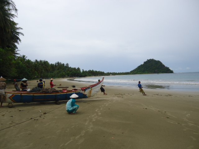 Kampung Nelayan Teluk Kasai